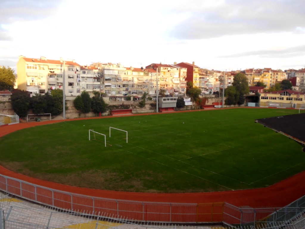 vefastadi1